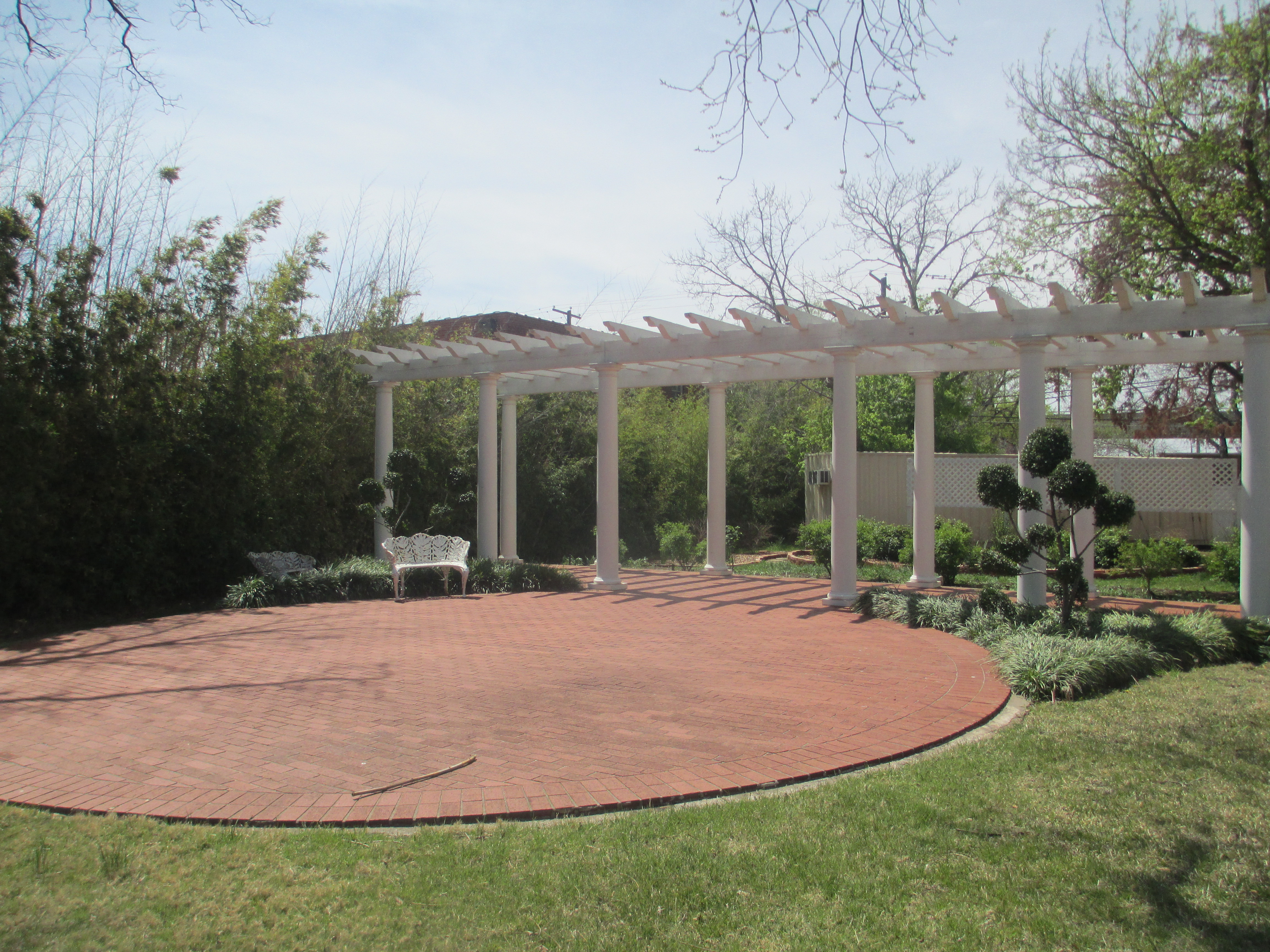 I took photo with Canon camera of outside of Kell House in Wichita Falls, TX.